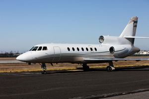 Falcon 50EX